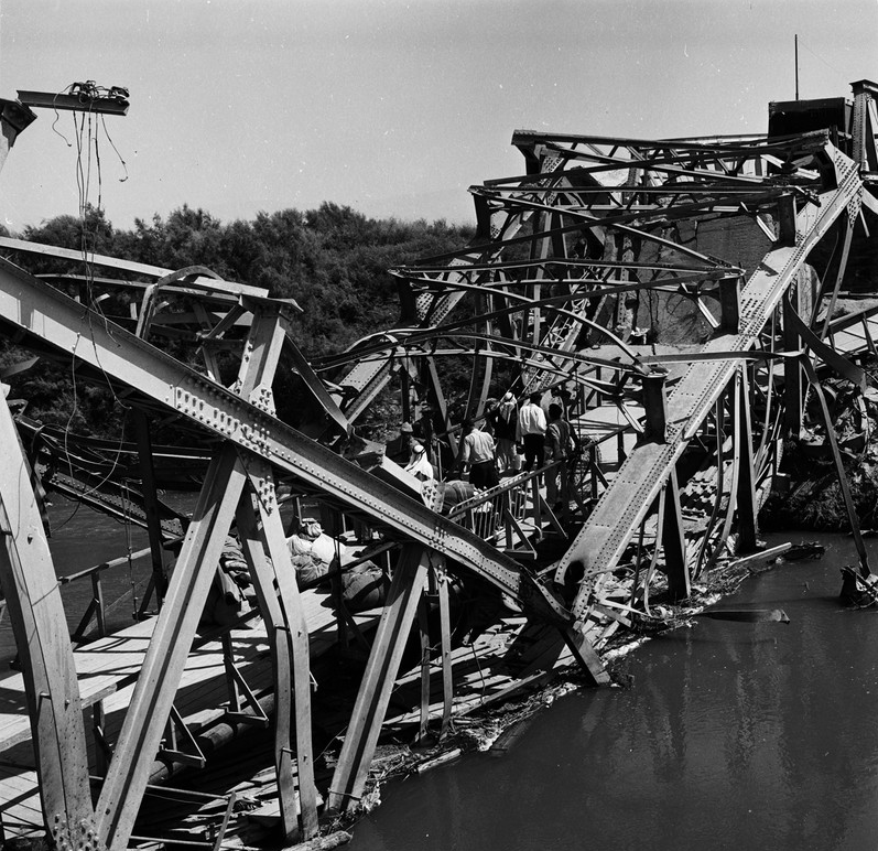 Allenby bridge connecting Jordan and West Bank